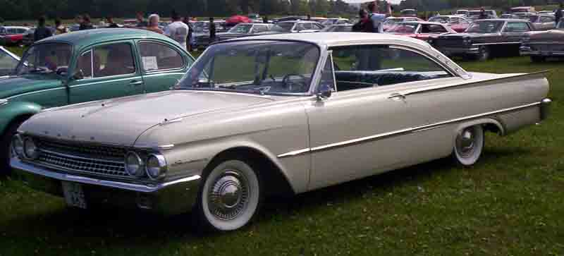 1961 Ford Starliner. The 1961 Starliner was part of the 1961 Ford Galaxie range.